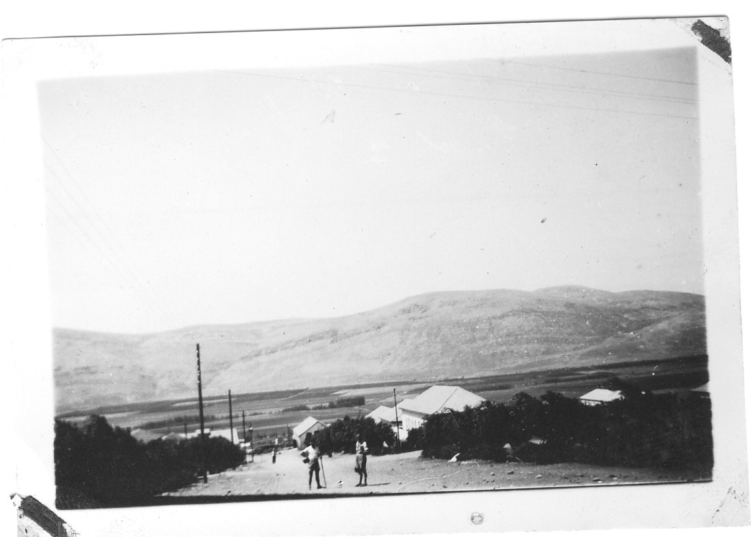 kibbutz ein harod in the forties